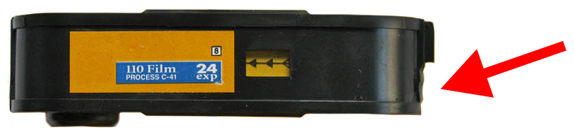 110-format film cartridge with misleading "low speed" tabs modified so that more sophisticated cameras can correctly detect and set "high speed". Arrow indicates modification.